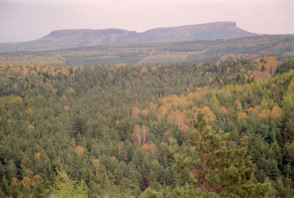 mountains "Zschirnsteine", left the small on, on the right the large one; Saxony Switzerland, Germany